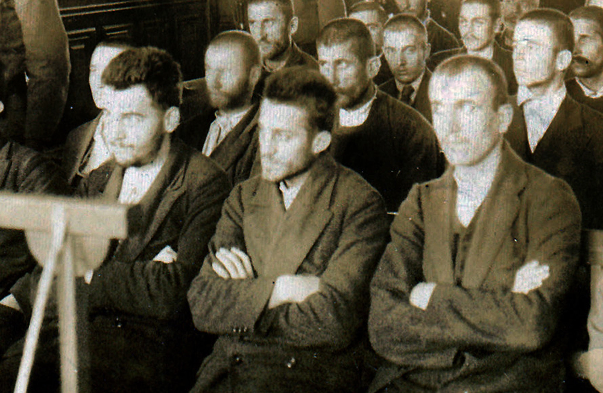 Sarajevo trial, accused, Čabrinović, Princip, Ilić